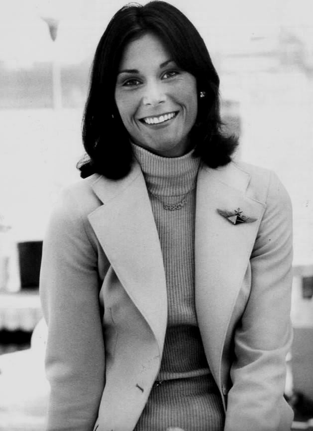 Photo of actress Kate Jackson from the television program Charlie's Angels.